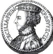 Margavine Cecilia of Baden-Rodemachern, née Pricess Wasa of Sweden